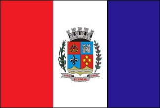 Flag of Iúna (Espírito Santo) - Copyrited by the brazilian law of Industrial Preperty (Law 9.279/ 14/05/1996)